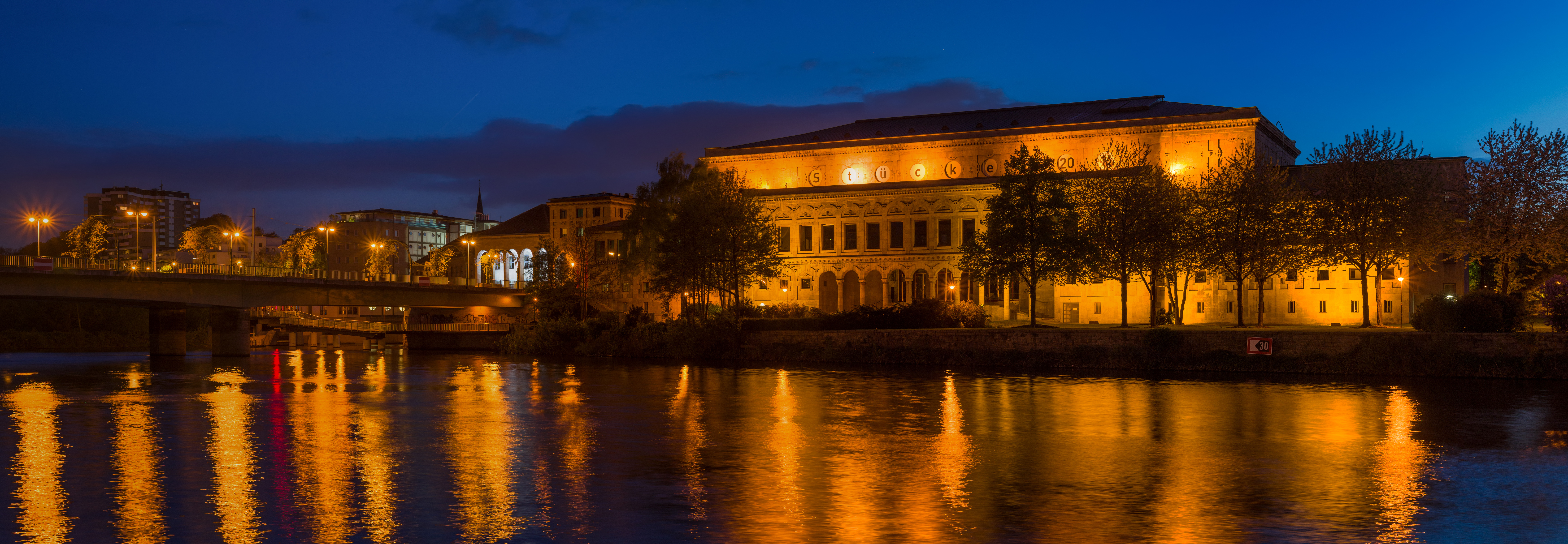 Town Event Hall ("Stadthalle") of Mülheim an der Ruhr at blue hour